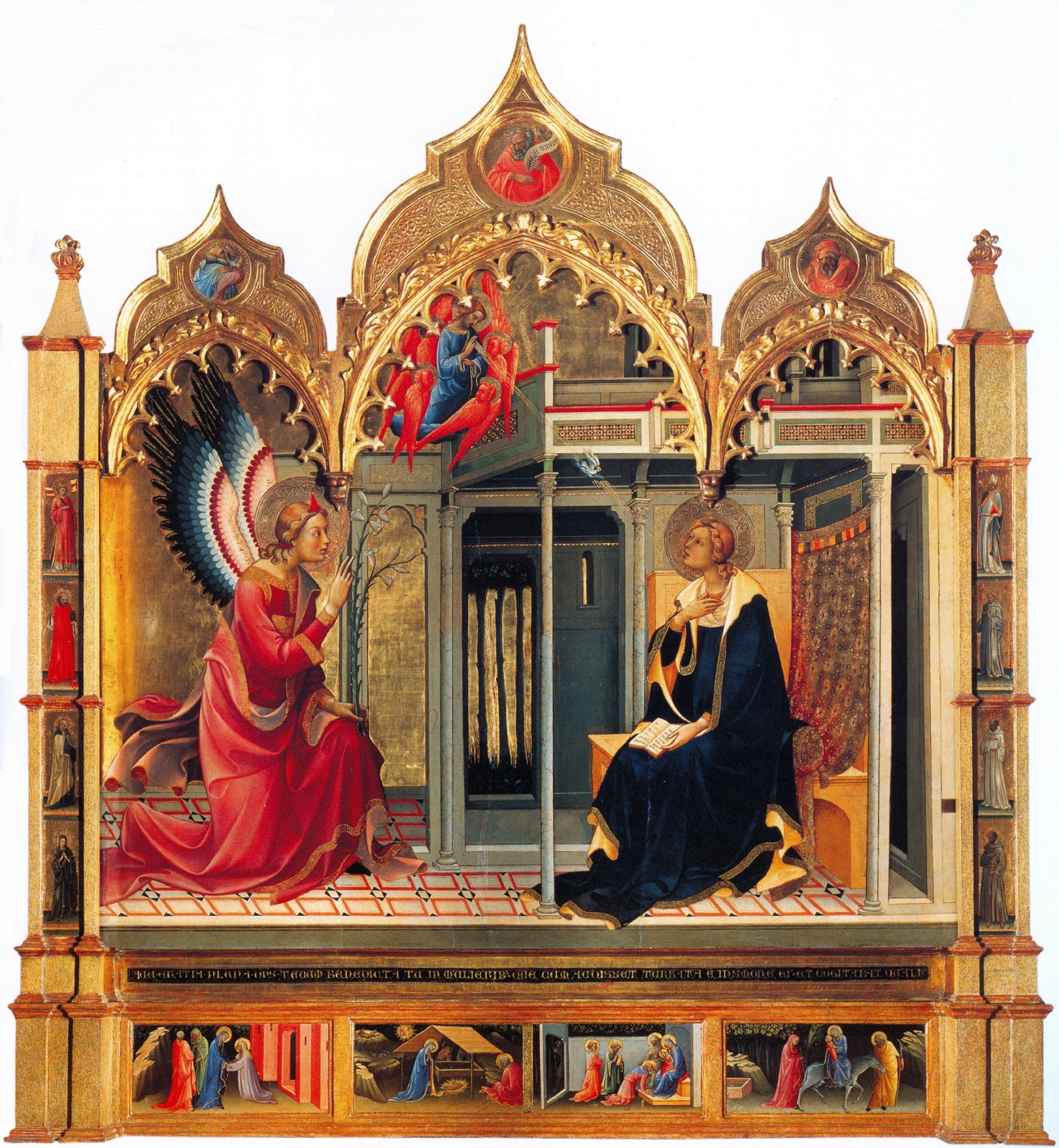 Lorenzo Monaco, Annunciation, 1420-25, Church of Santa Trinita, Florence